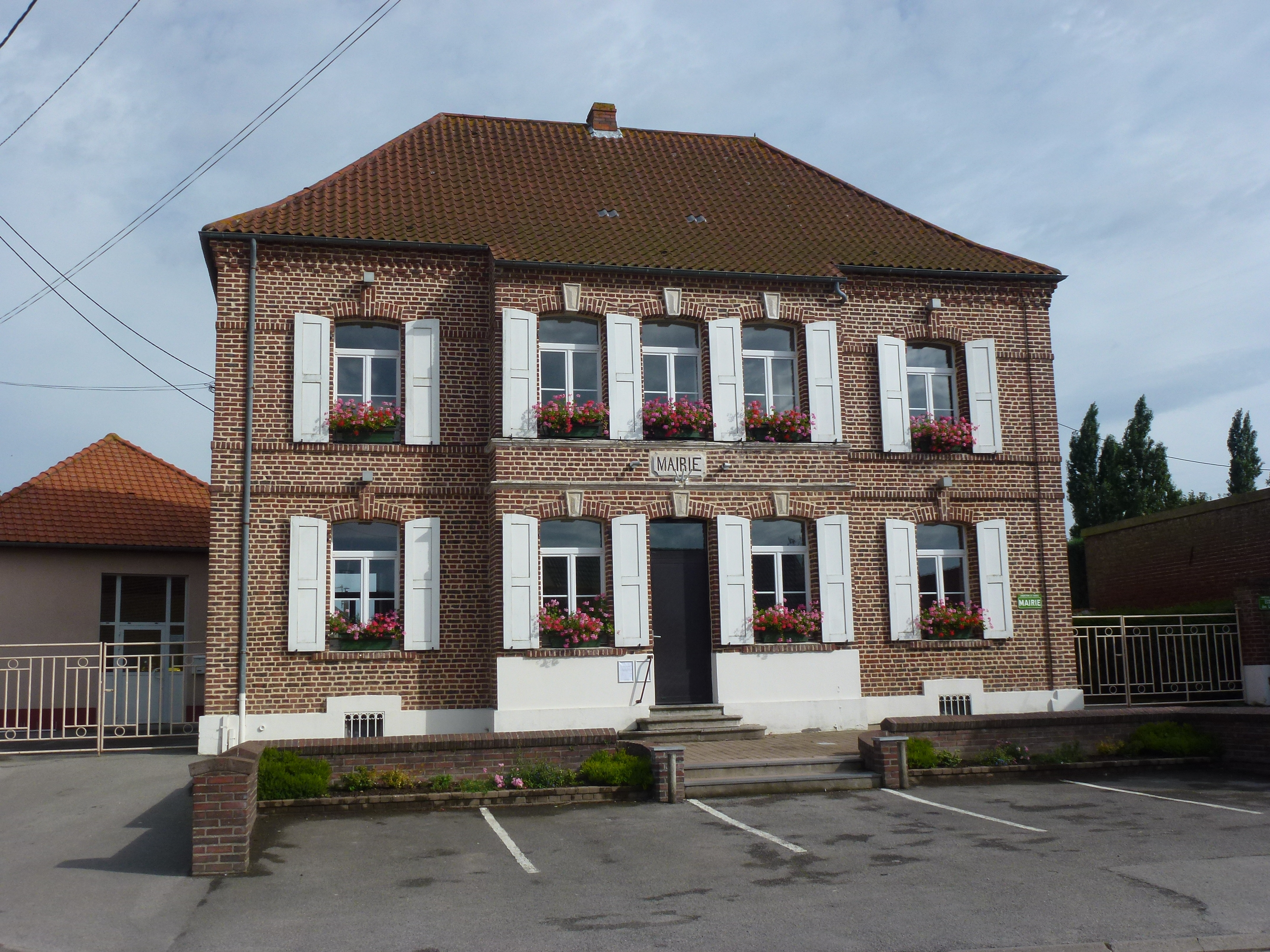 Landrethun-lès-Ardres (Pas-de-Calais) mairie